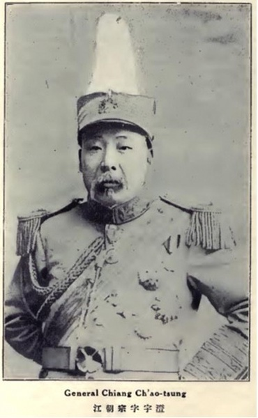 Jiang Chaozong (1861-1943)